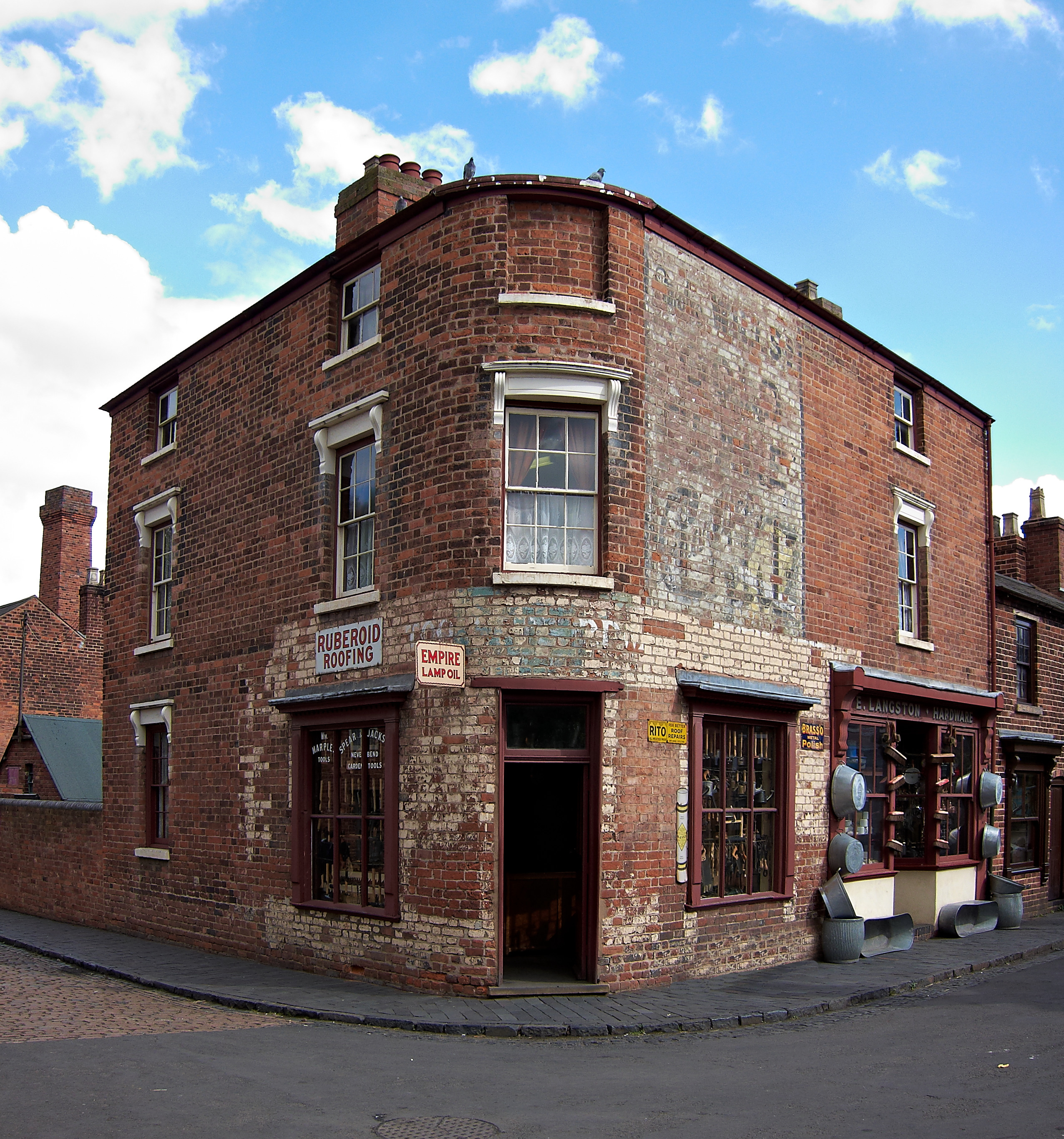 Hardware Store , Black Country living museum